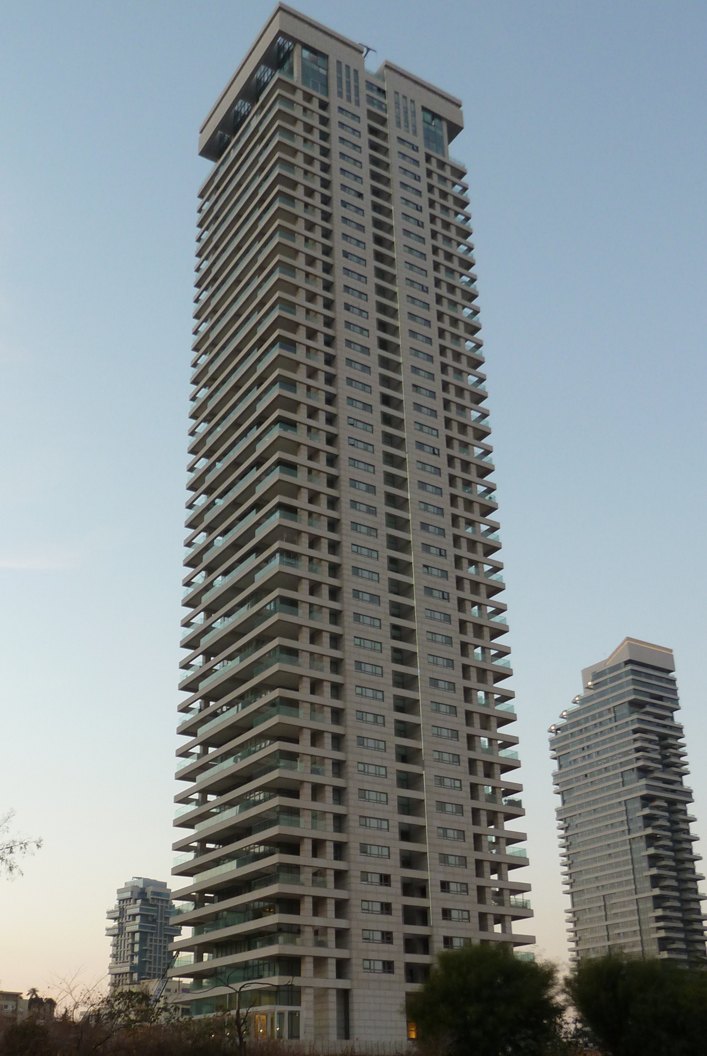 W-Tower at Tel Aviv, Israel